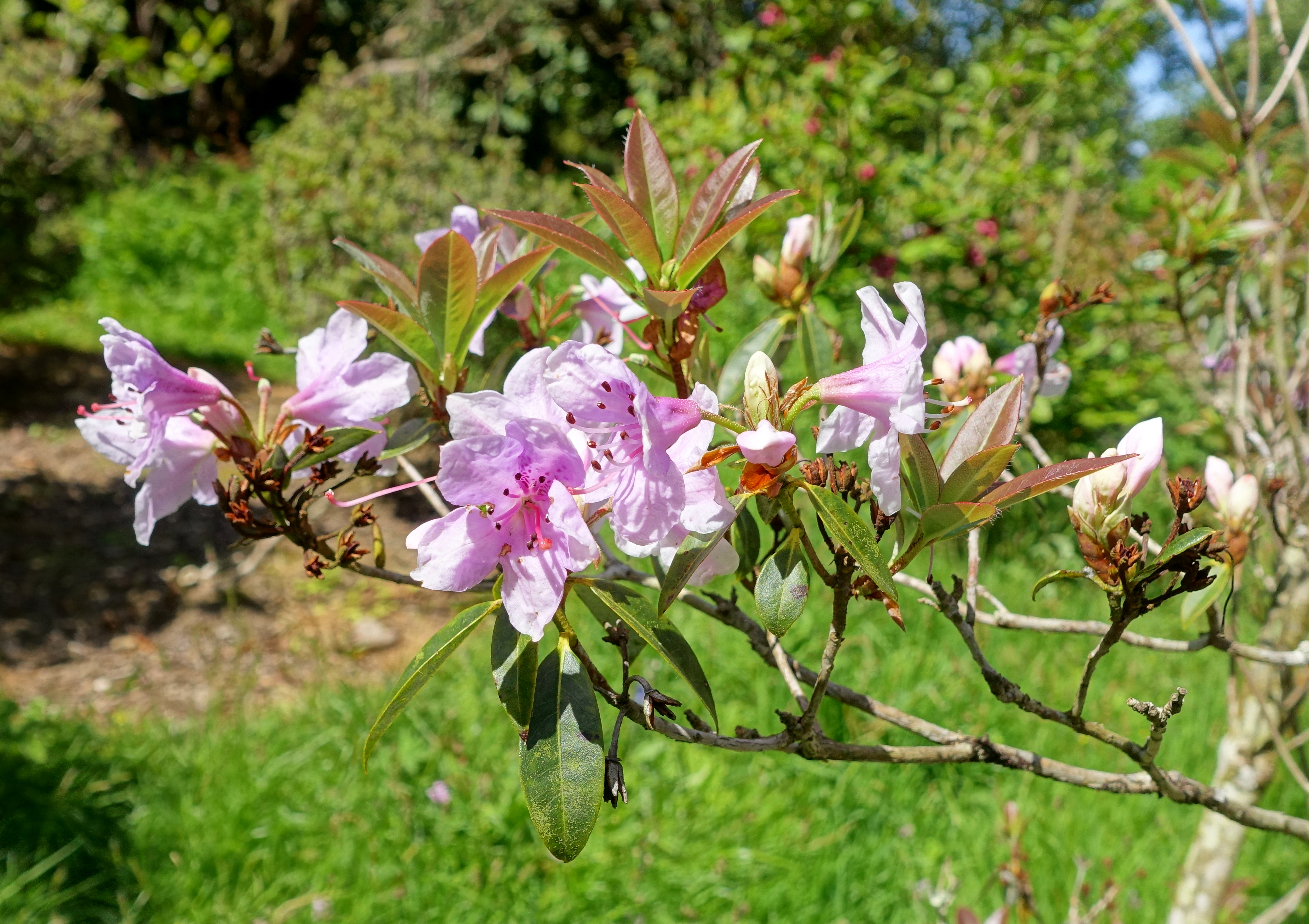 Botanical specimen in Caerhayes Castle gardens - Cornwall, England.